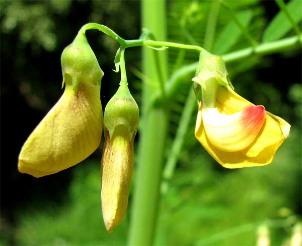 A few classically pea-shaped Sesbania herbacea flowers. To show its keel petals, the banner and wing were partially removed from the rightmost flower.